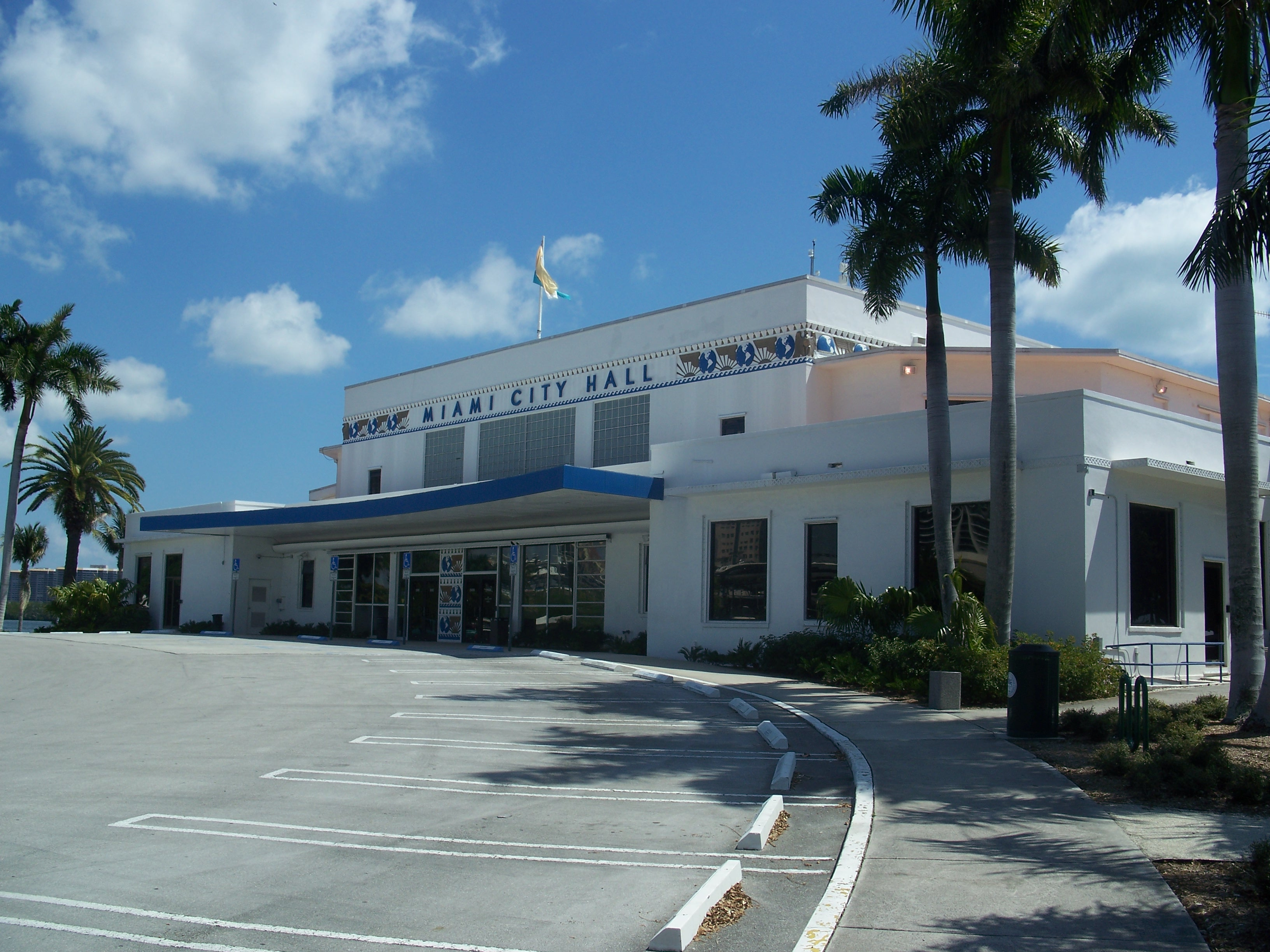 Miami, Florida: Pan American Seaplane Base and Terminal Building: Now Miami's city hall.